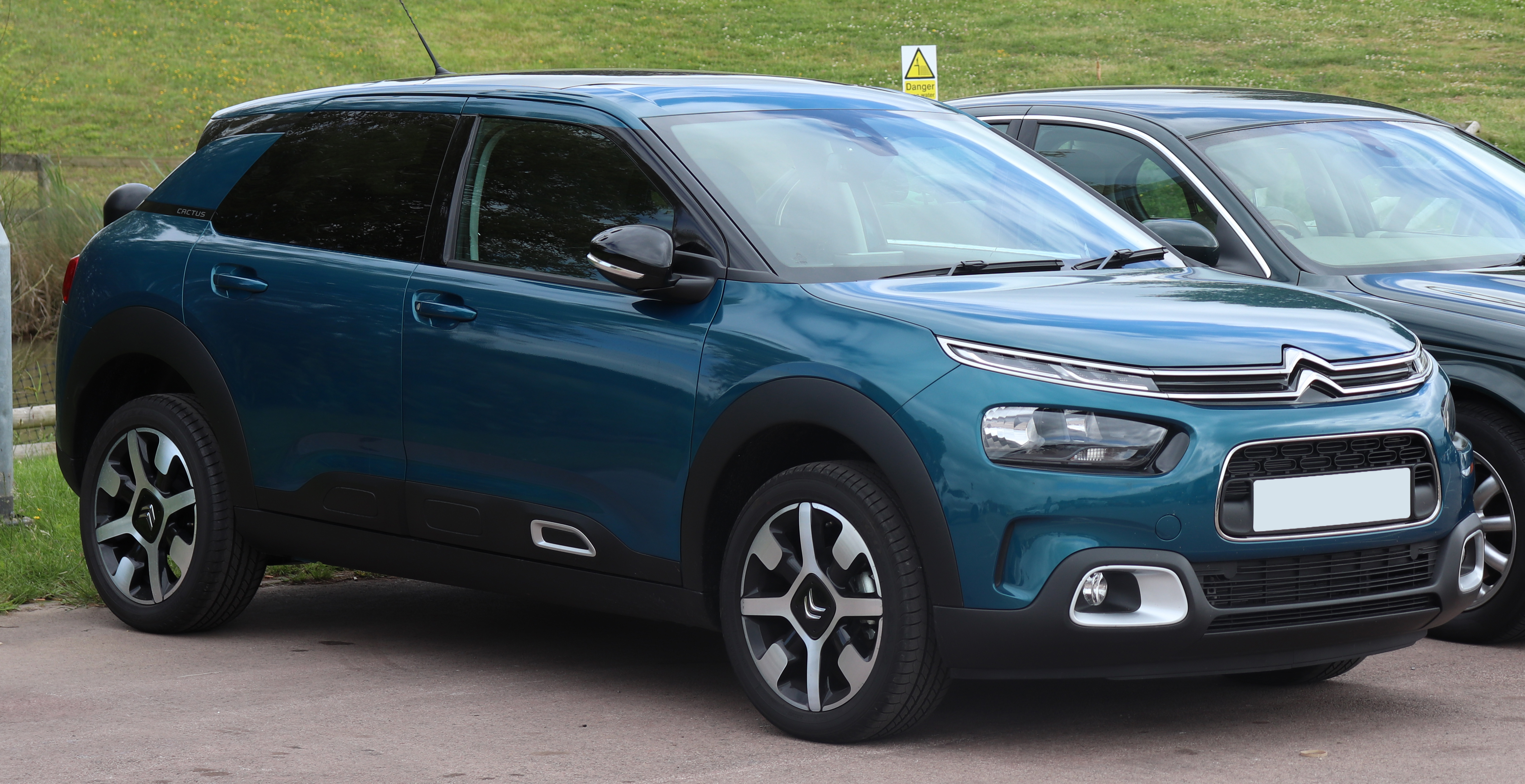 2018 Citroen C4 Cactus Flair BlueHDI S facelift 1.6 Front Taken at the British Motor Museum, Gaydon